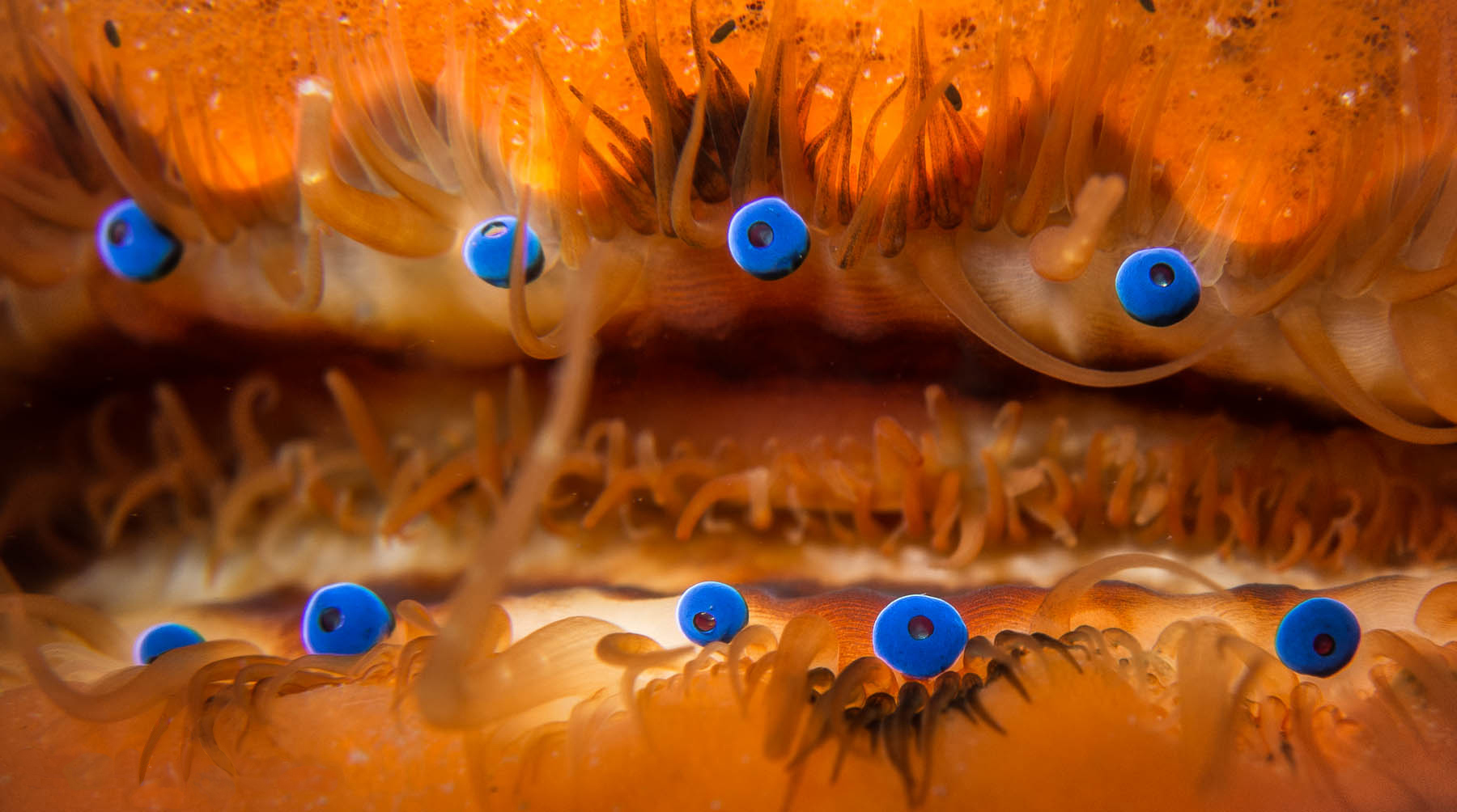 Macro photo of scallop showing some of its bright blue eyes. Acquired courtesy of Matthew Krummins